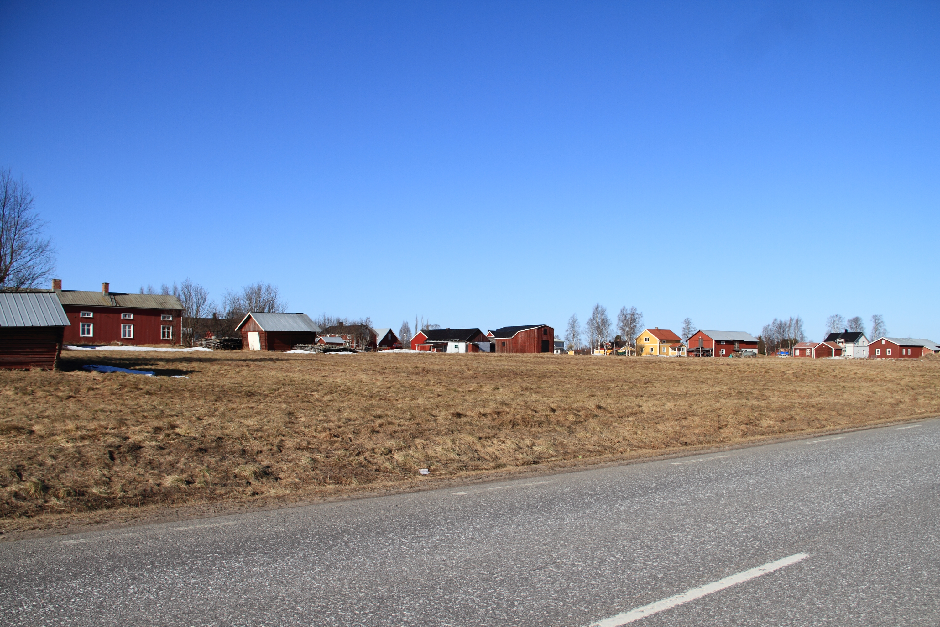 The village Ersnäs in Norrbotten, Sweden. View from south.